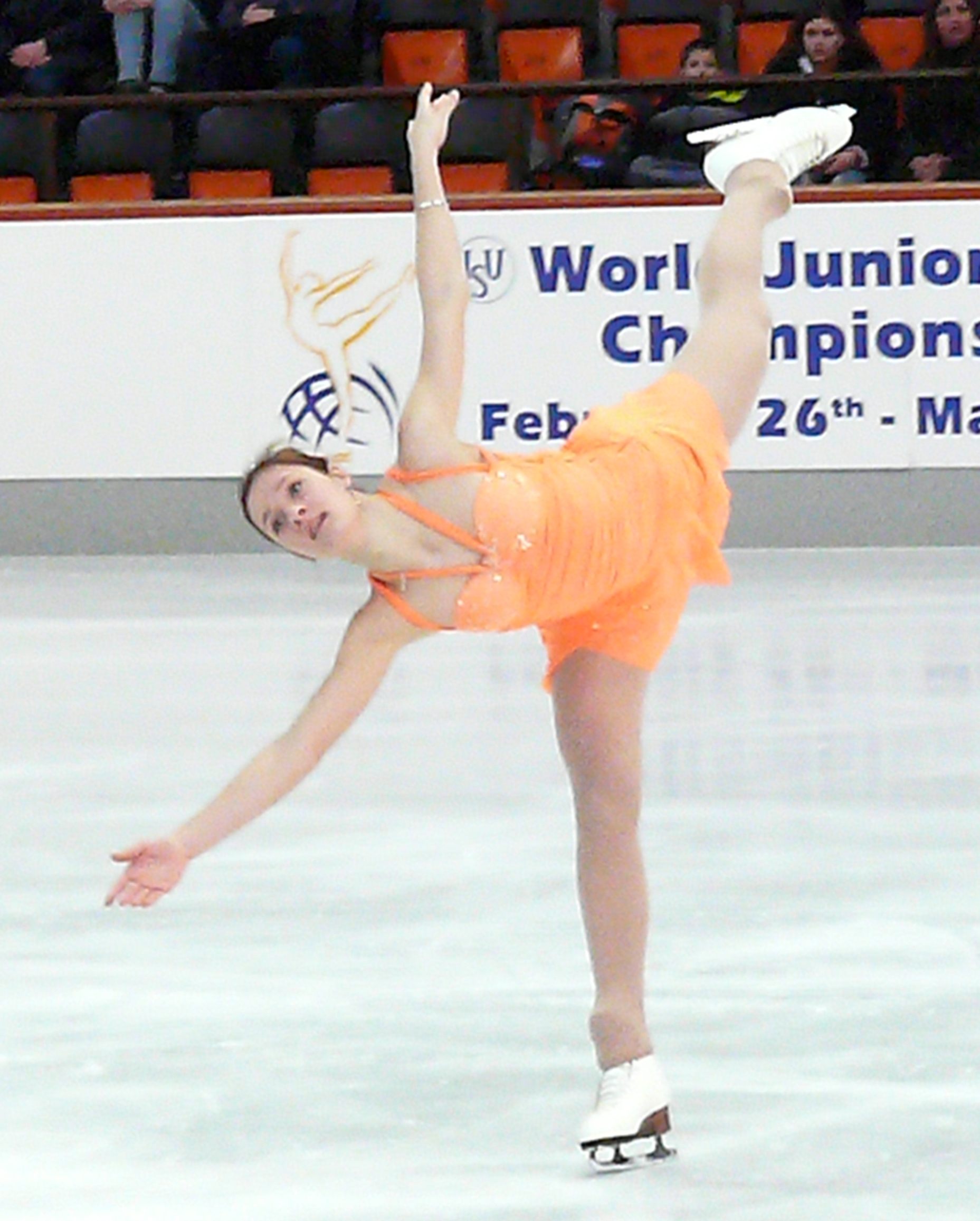 Kristin Wieczorek at the short program at the German Championships 2007 in Oberstdorf